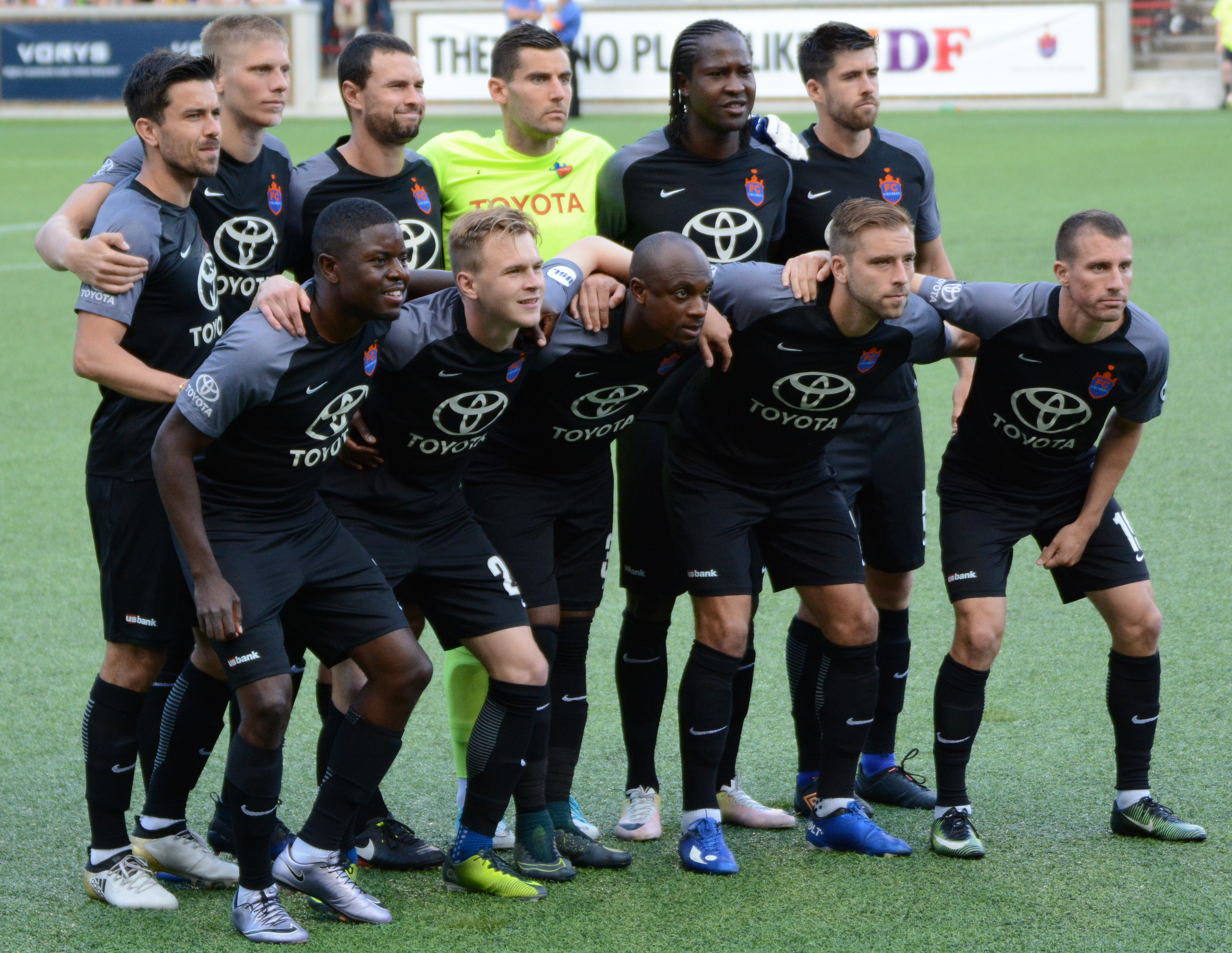 The starting eleven of FC Cincinnati pose for a photo before a 2017 U.S. Open Cup match against Louisville City FC at Nippert Stadium in Cincinnati, Ohio on May 31, 2017. From left to right, the back row is Andrew Wiedeman, Harrison Delbridge, Austin Berry, Mitch Hildebrandt, Djiby Fall, and Aodhan Quinn, and the front row is Kadeem Dacres, Jimmy McLaughlin, Justin Hoyte, Matt Bahner, and Corben Bone.